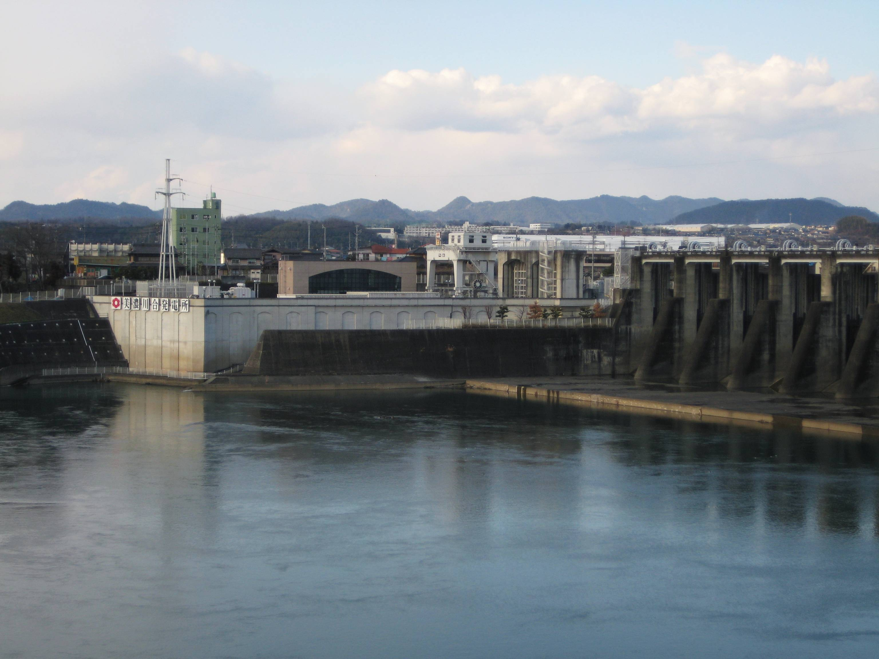 Minokawai power station.